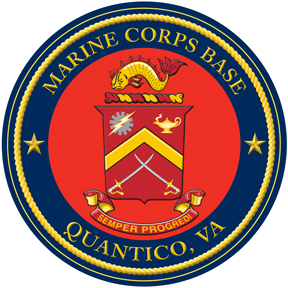 The seal of Marine Corps Base Quantico bears the heraldic symbols and coat-of-arms, which represent the institutional traditions and mission of the base and its subcommands that have evolved since Quantico’s founding in 1917. The Dolphin depicted above the shield symbolizes swiftness and strength of body and mind, and is synonymous with amphibious operations for which the U.S. Marine Corps is renowned and which were developed at Quantico. The rope or “wreath” represents the joining of practice and theory. The gear wheel with lightning bolt represents mechanical and communications research and development. The oil lamp is the traditional lamp of light, truth and knowledge, which symbolizes the various academic institutions aboard Quantico. The crossed officers’ swords symbolize Quantico’s commitment to the making and professional advancement of officers in the U.S. Marine Corps. The banner with the Latin inscription “Semper Progredi” translates into English as “Always Forward” the motto of Marine Corps Base Quantico.